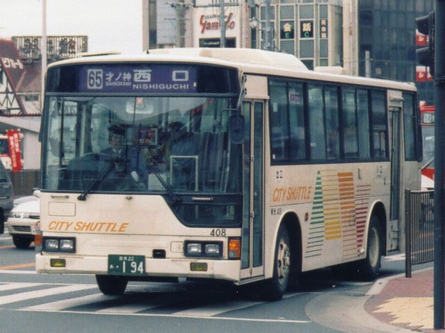 Toyohashi Railroad 408 "City Shuttle" Mitsubishi U-MM517J at Toyohashi Sta.